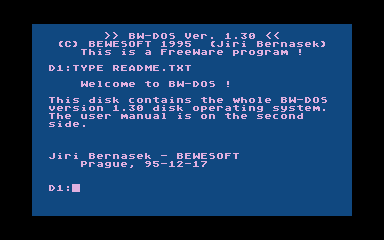 BW-DOS is a disk operating system for 8-bit ATARI computers